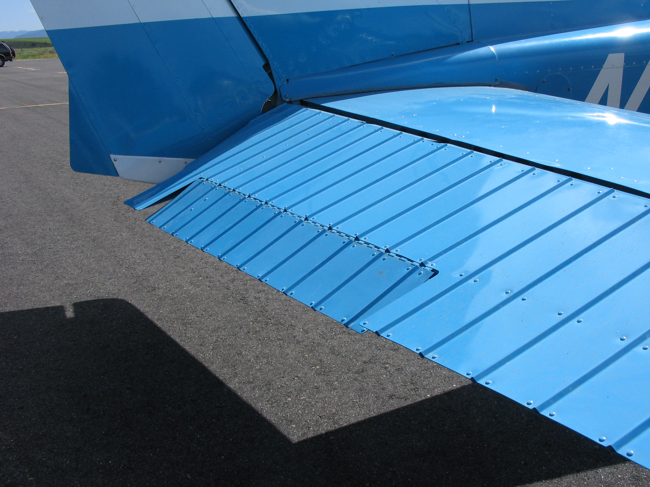 A picture of an aircraft (Cessna 172) elevator trim tab.